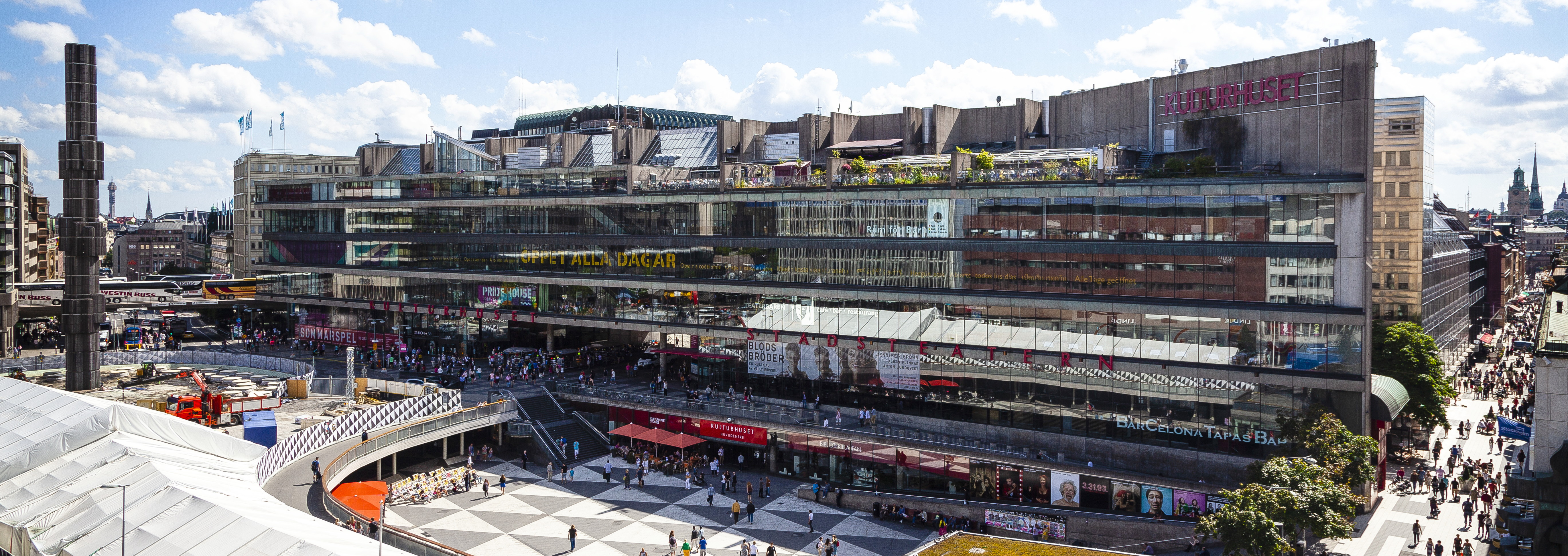 FOTOGRAFIKulturhuset -FOTOGRAF: Johan Stigholt.BILDNUMMER:Stadsmuseet i Stockholm